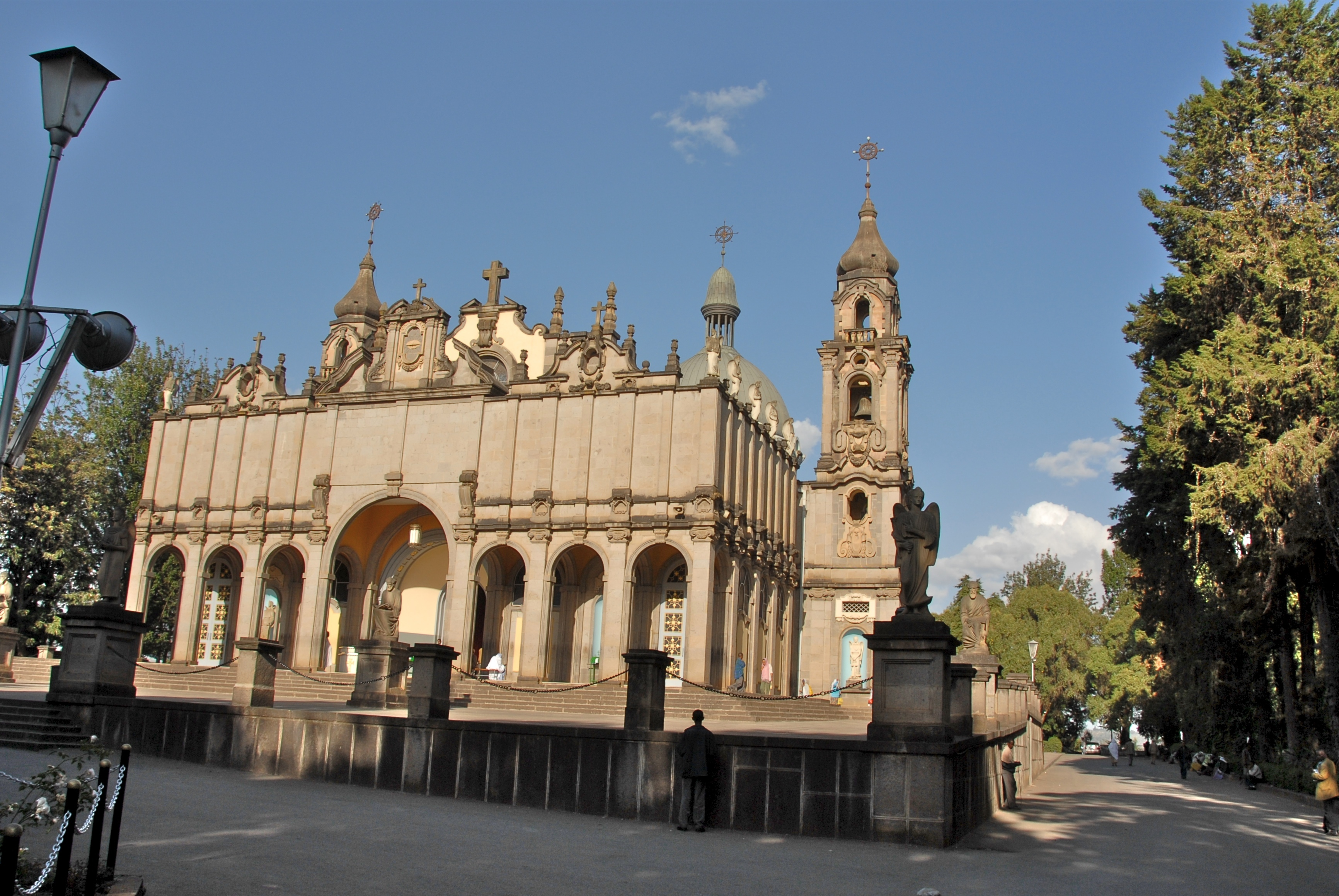 Trinity Cathedral